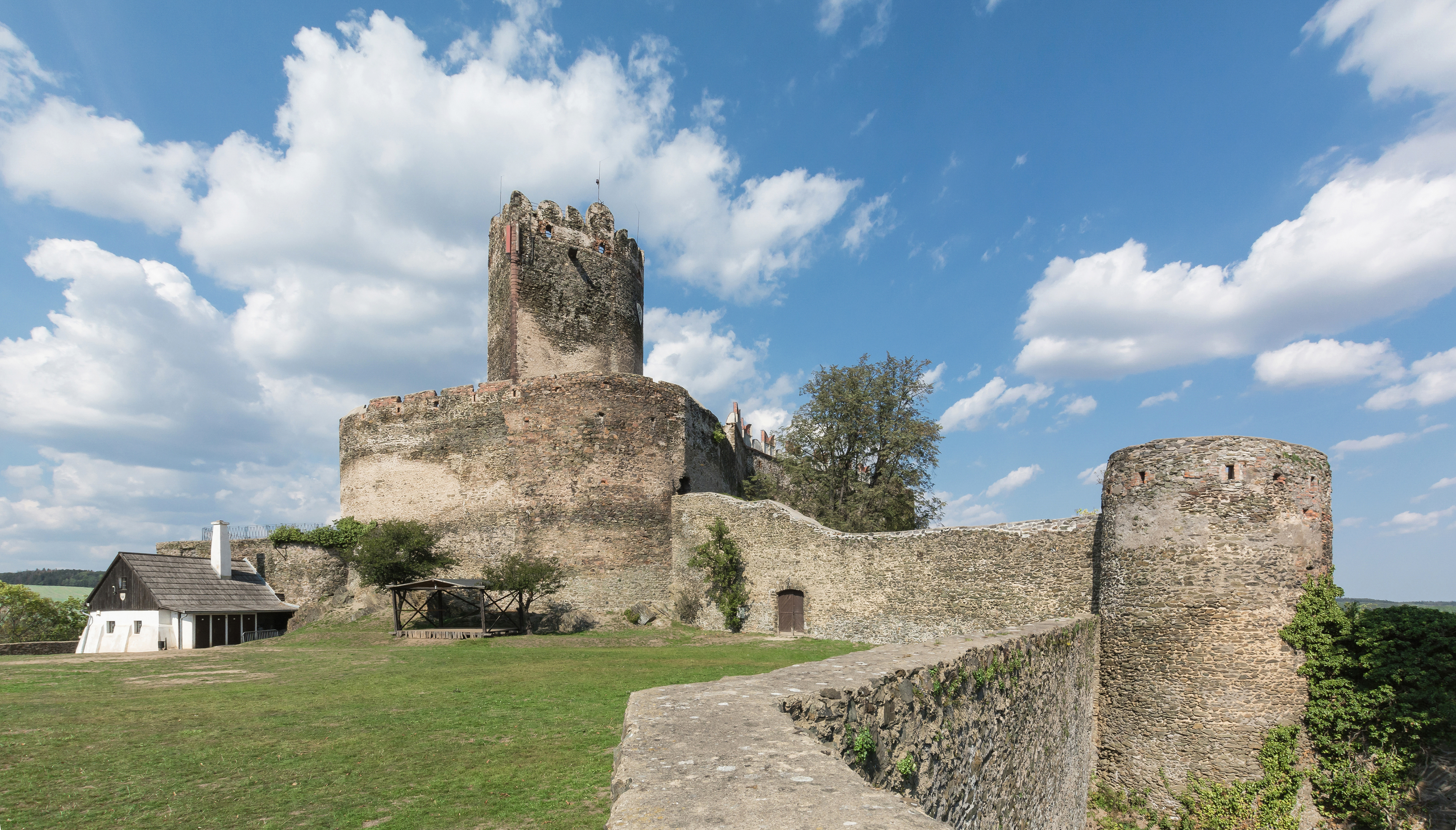 Bolków CastleRomână: Castelul Bolków Wikidata has entry Q891409 with data related to this item.